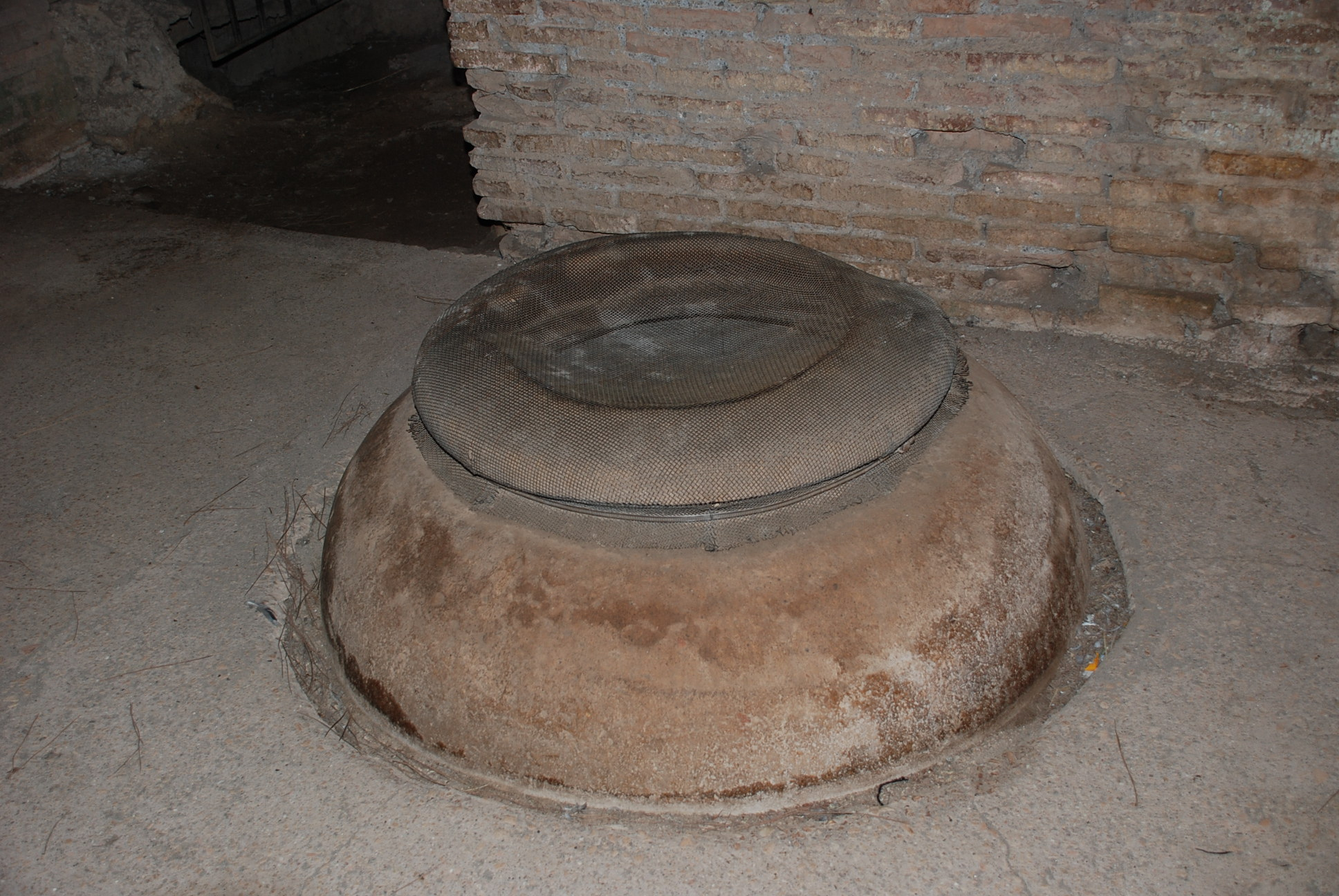 Ostia antica (archaeological site), termopolium